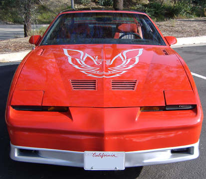 1985 Firebird Trans-Am. 1985 Trans Am with new fog lights, hood vents, and new optional hood bird "Screaming Chicken" decal.